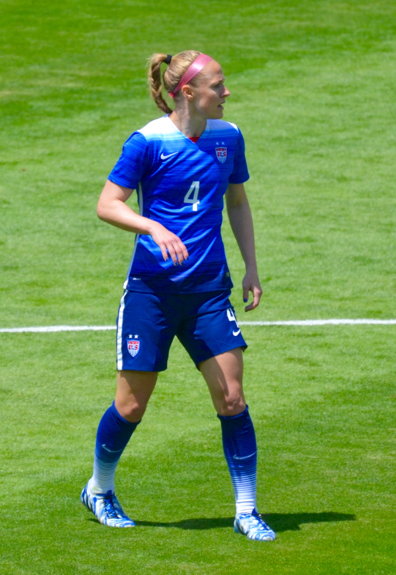 Becky Sauerbrunn playing for the USWNT in San Jose, California on 10 May 2015.